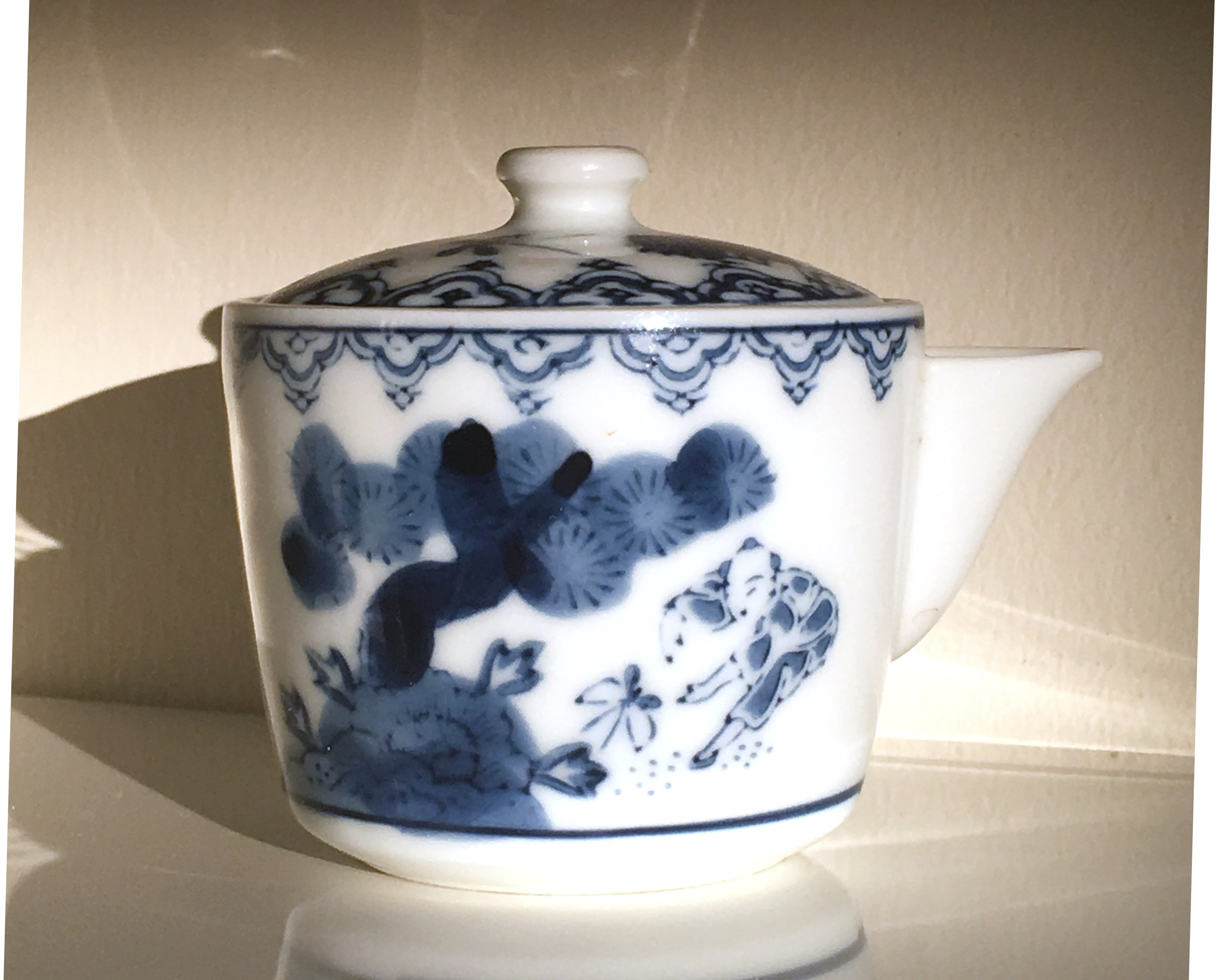 A small sencha kyūsu Arita ware Eiyama (栄山) kiln with blue and white (sometsuke) traditional motifs of Chinese children (karako) playing with butterflies. The kyūsu dates to early Shōwa era or Taishō era.